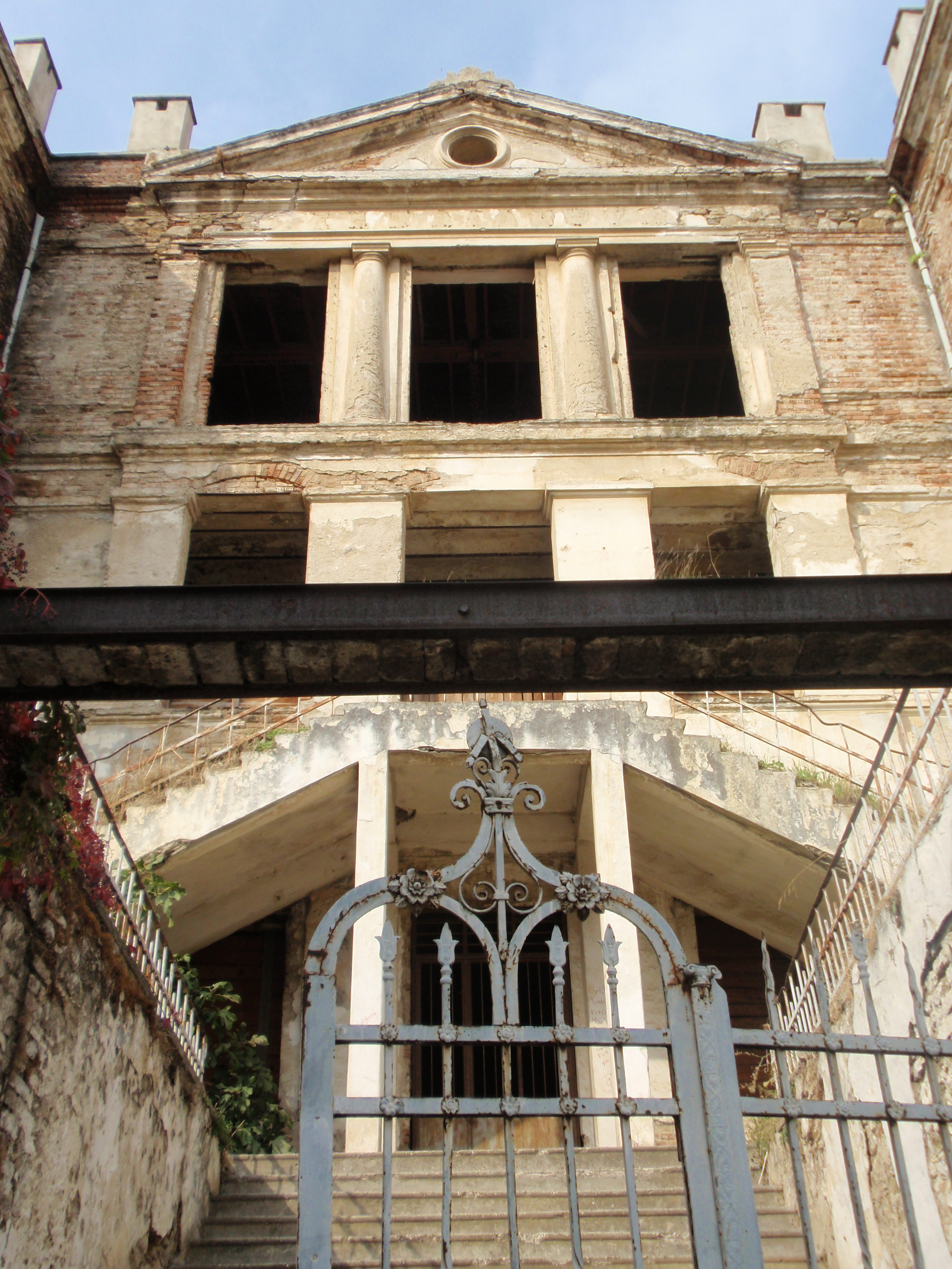 Old school in Zeytinbağı, built by Chrysostomos of Smyrna